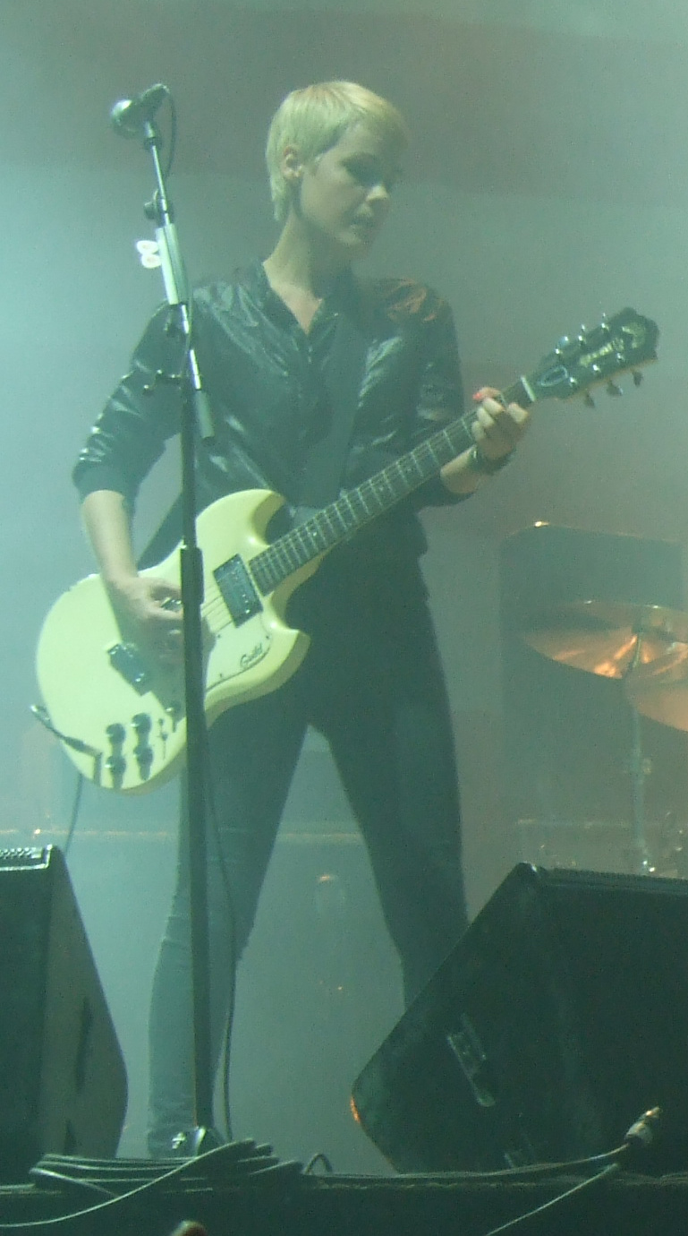 Jennie Asplund performing with the rock band Sahara Hotnights at Gatufesten in Sundsvall, Sweden